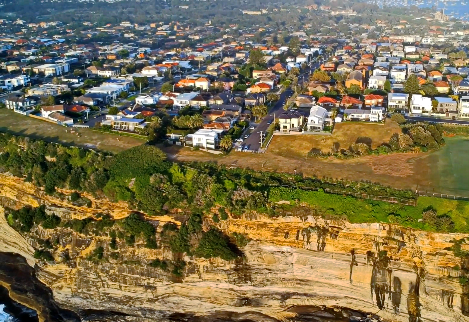 Dover Heights cliff-top homes (Sydney, Australia)